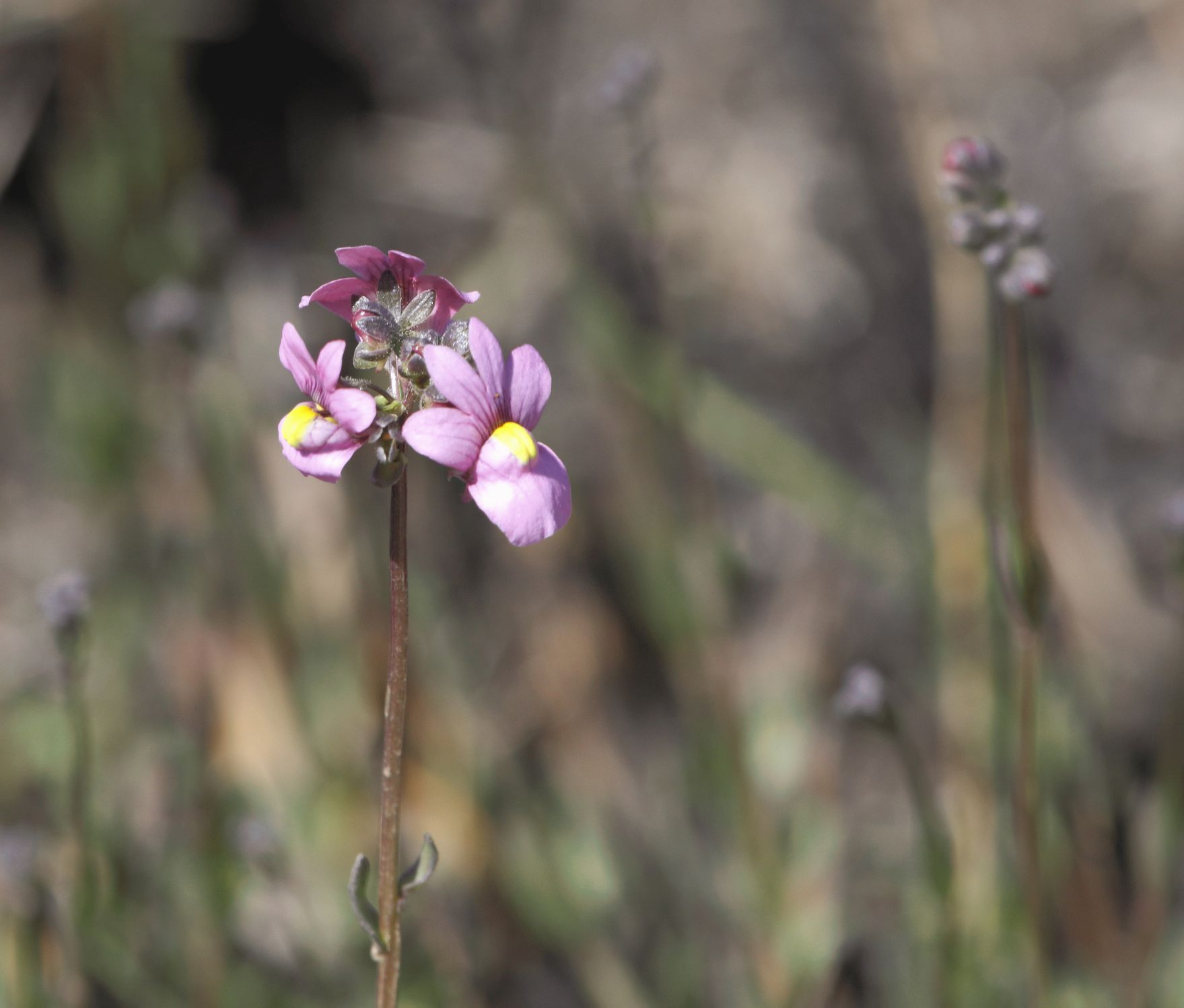 Nemesia denticulata; in rocky grassland at Mount Gilboa, KwaZulu-Natal, South Africa.